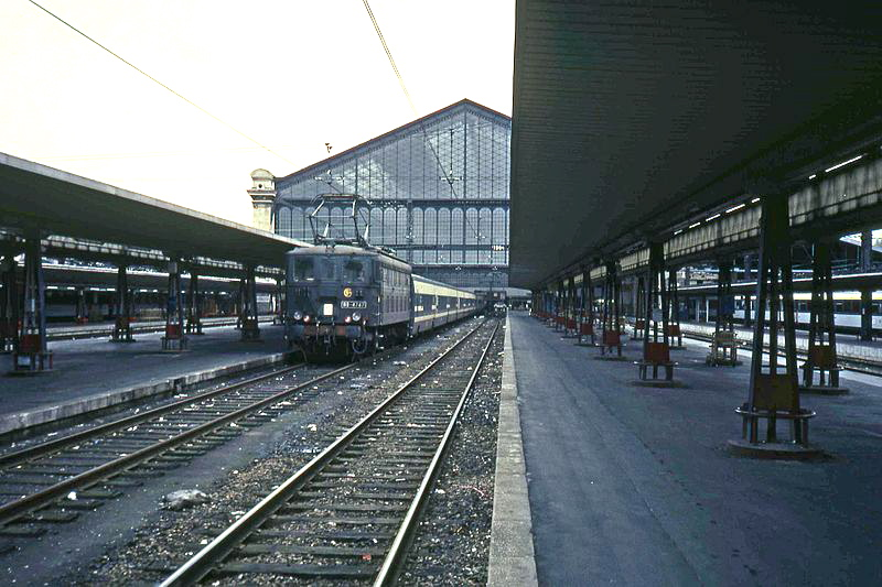 Old 4747 loc used for shunting duties. Behind a Spanish Talgo sleepingcar train.